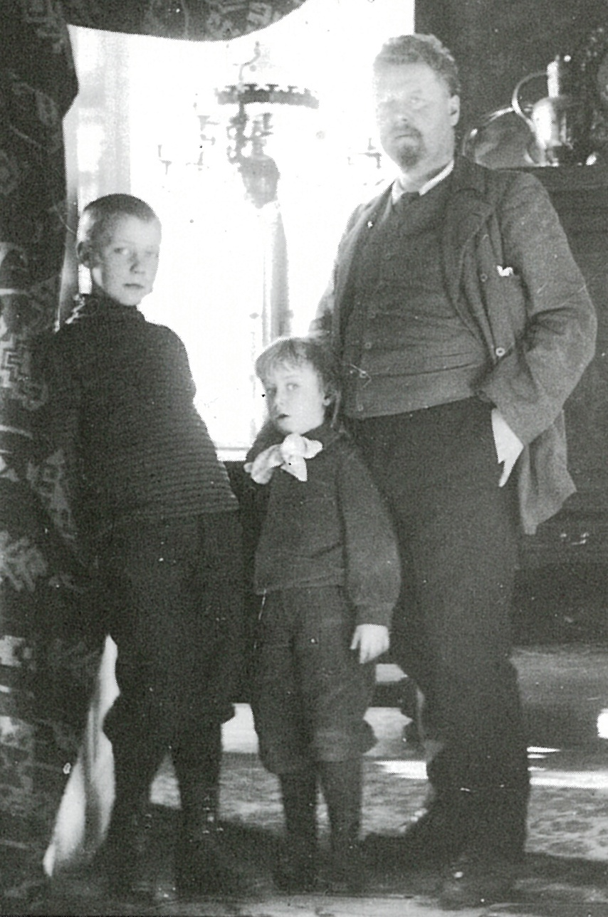 Norwegian painter Gustav Wentzel (1859-1927) with his sons Jørgen (b 1890) and Bjørn (b 1896) in their home Hasselbakken, Asker